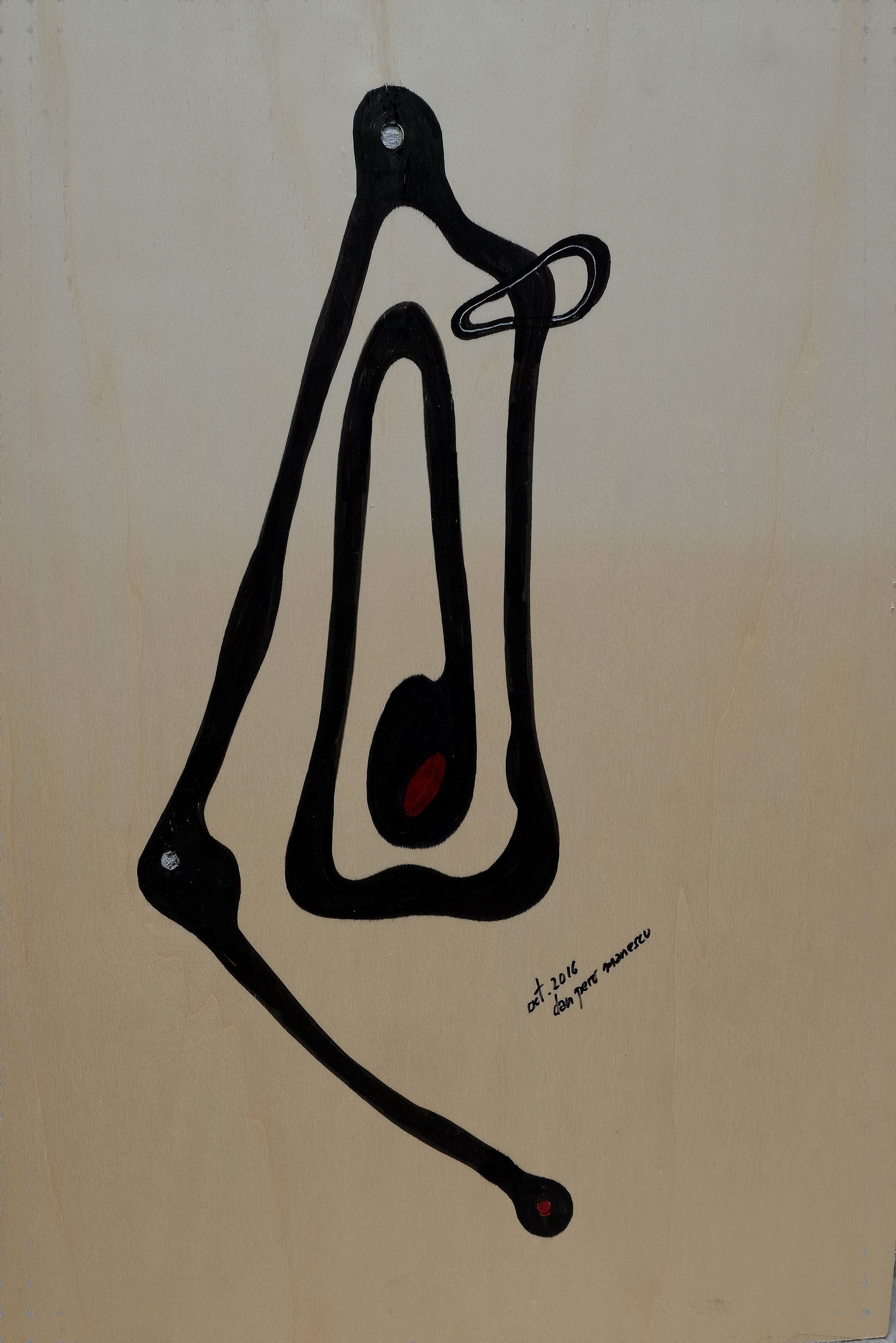 "Lady-Q", a Dan Pero Manescu "New Quantum - Art" painting, acrylics and varnish on wooden board, Oct. 2016.